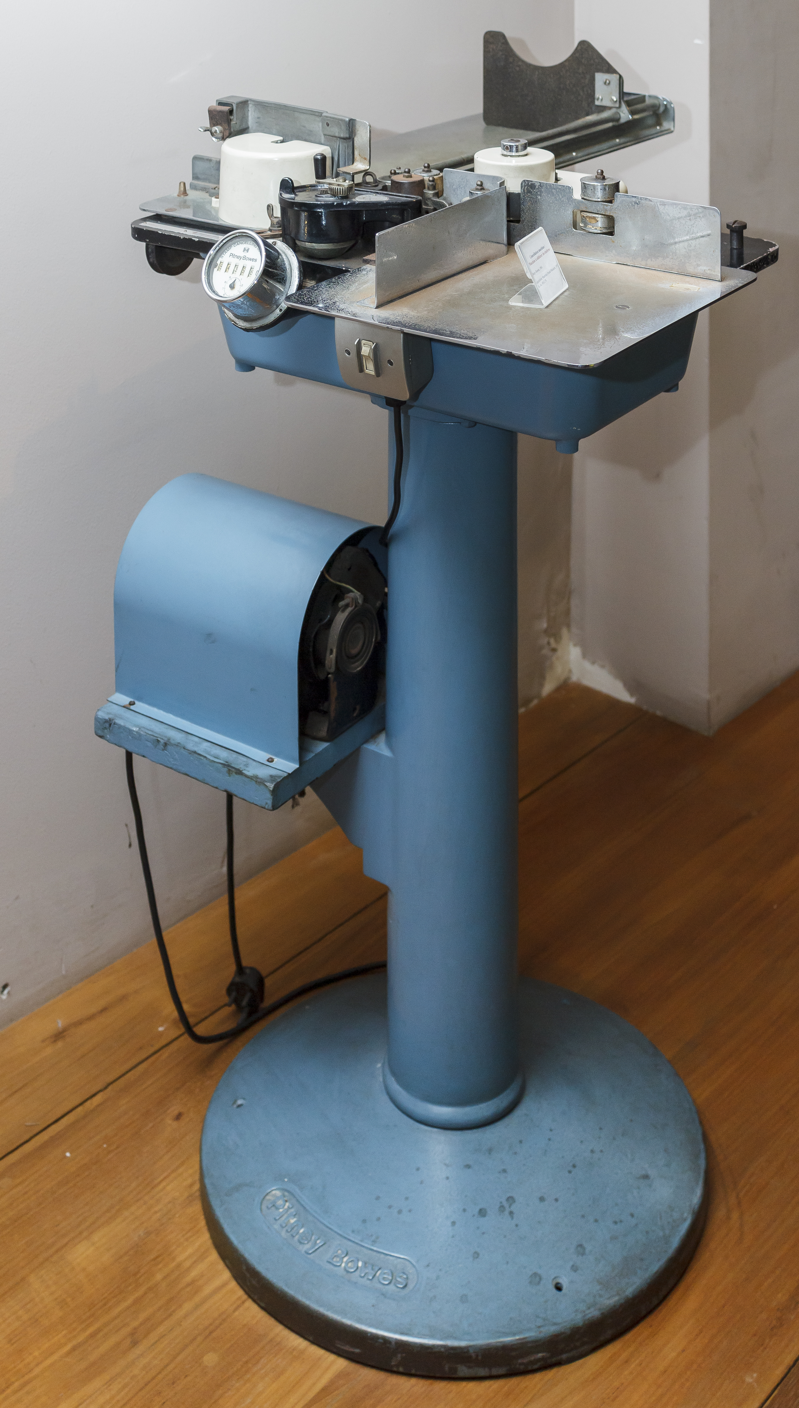 St. Louis, Mauritius: Pitney Bowes Stamp Cancelling Machine of the old Mauritius Post Office (today part of the Mauritius Postal Museum)